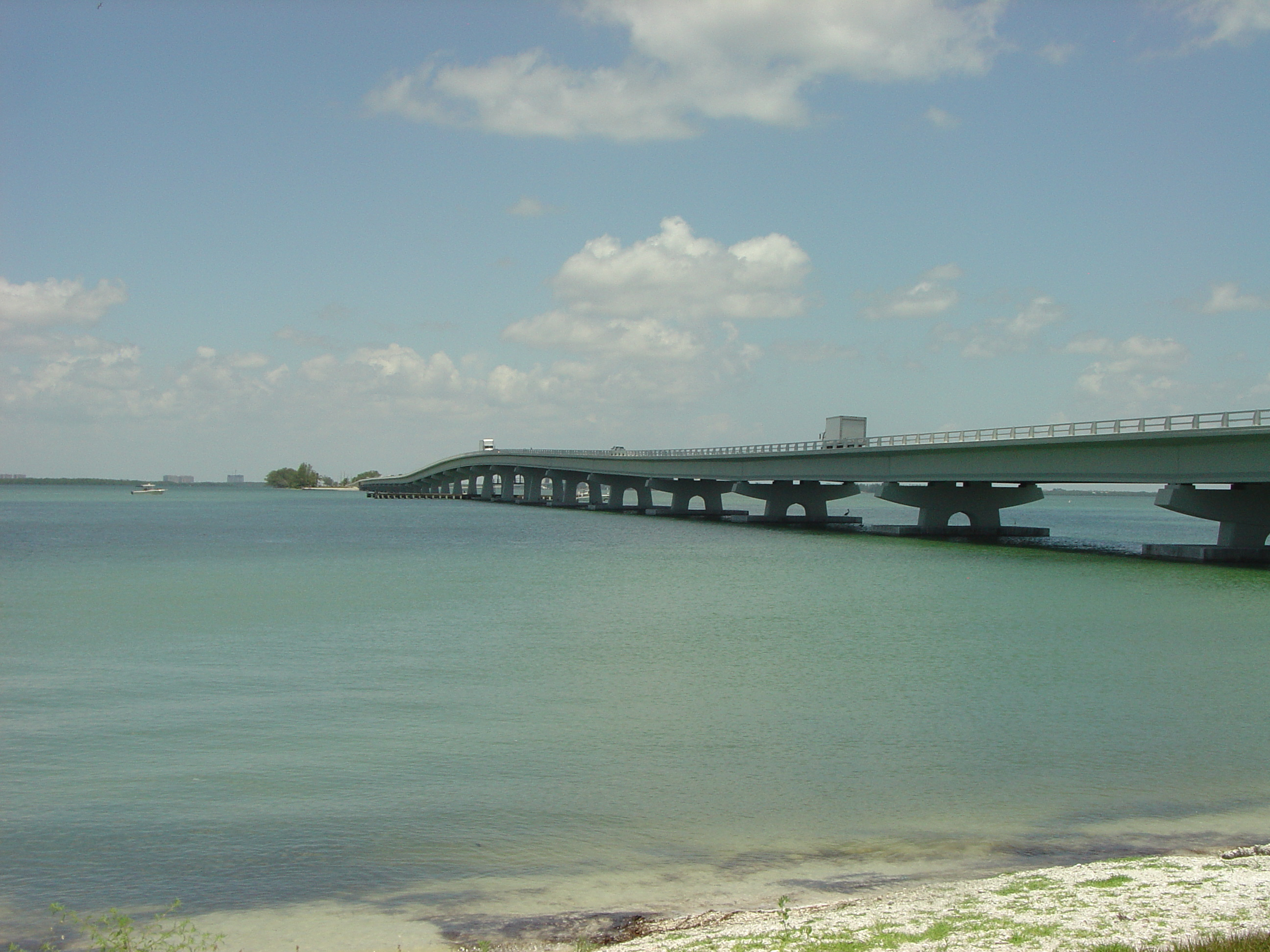 Bridge C of the Sanibel Causeway